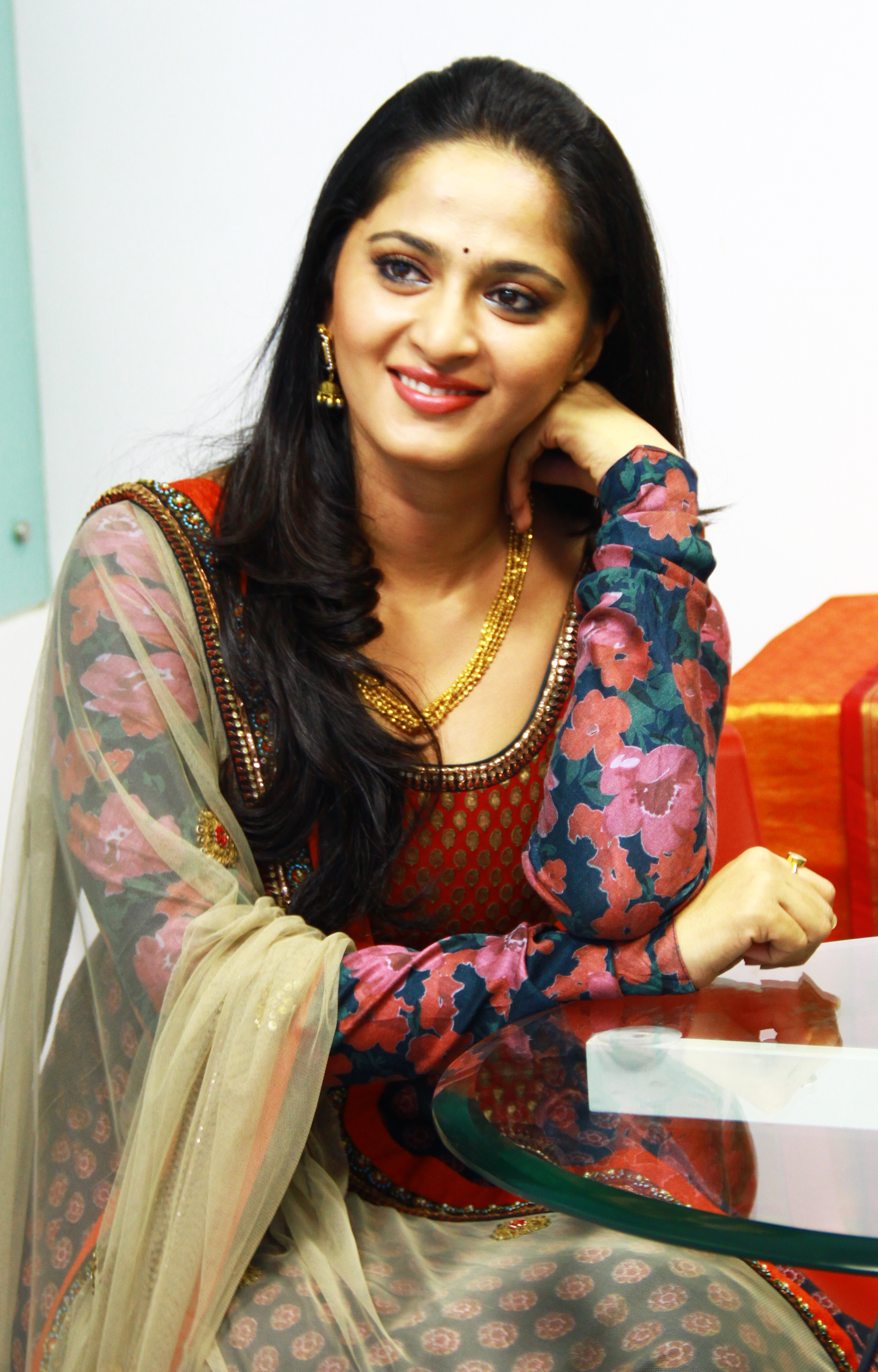 Anushka Shetty great actress